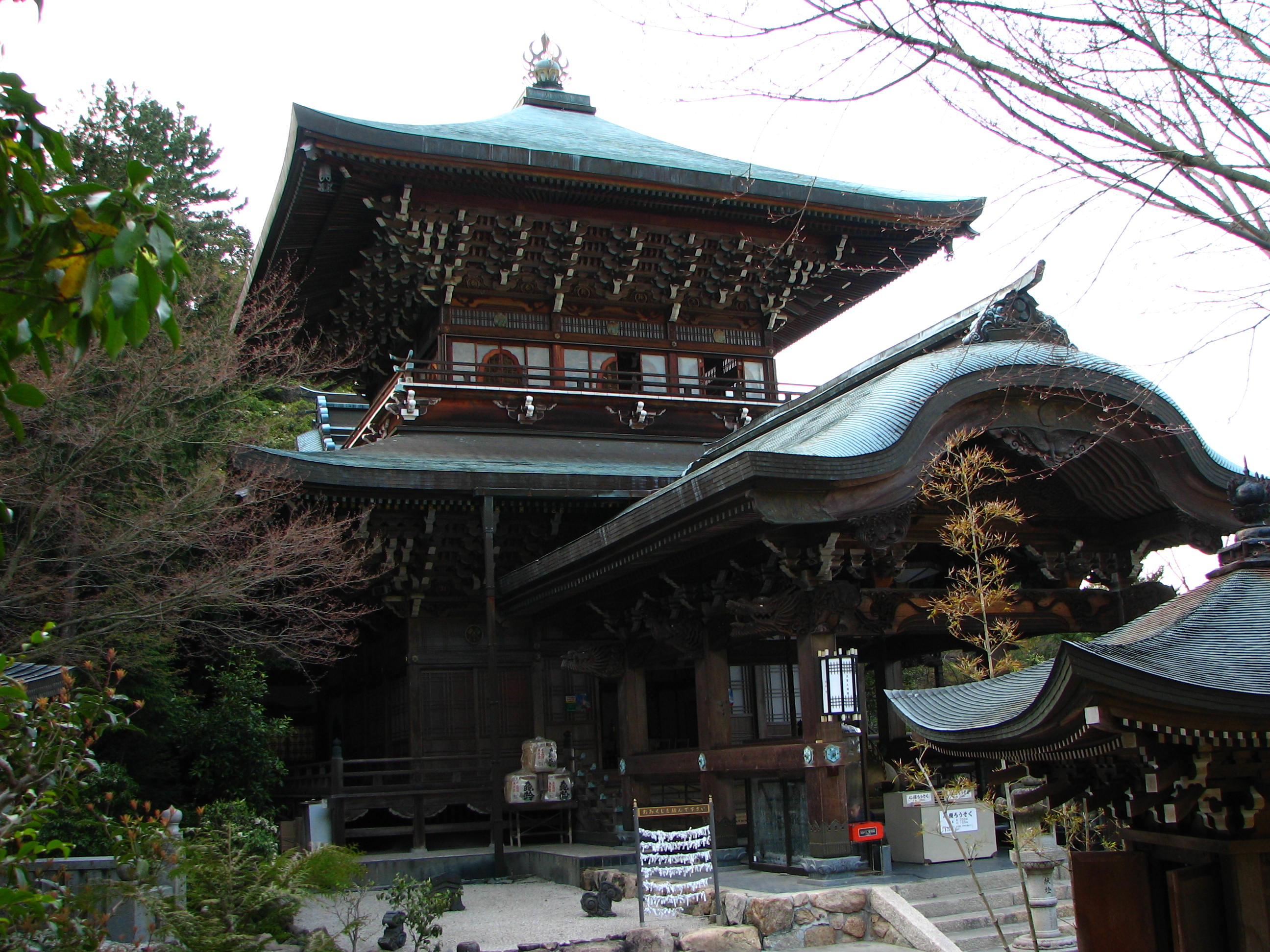 Maniden Hall, Daisho-in temple, Miyajima island, Hiroshima Prefecture, Japan